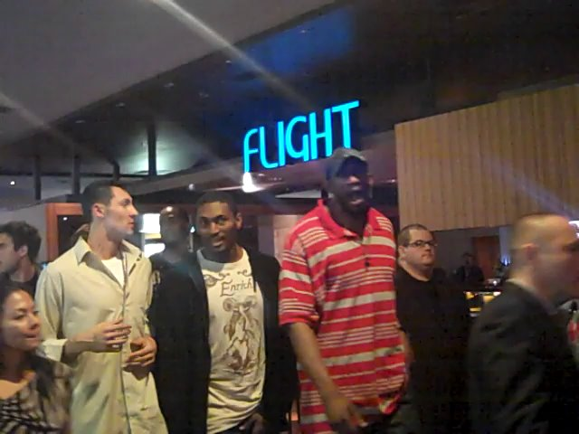 See more at Follow Kalooz on YouTube: and on Twitter